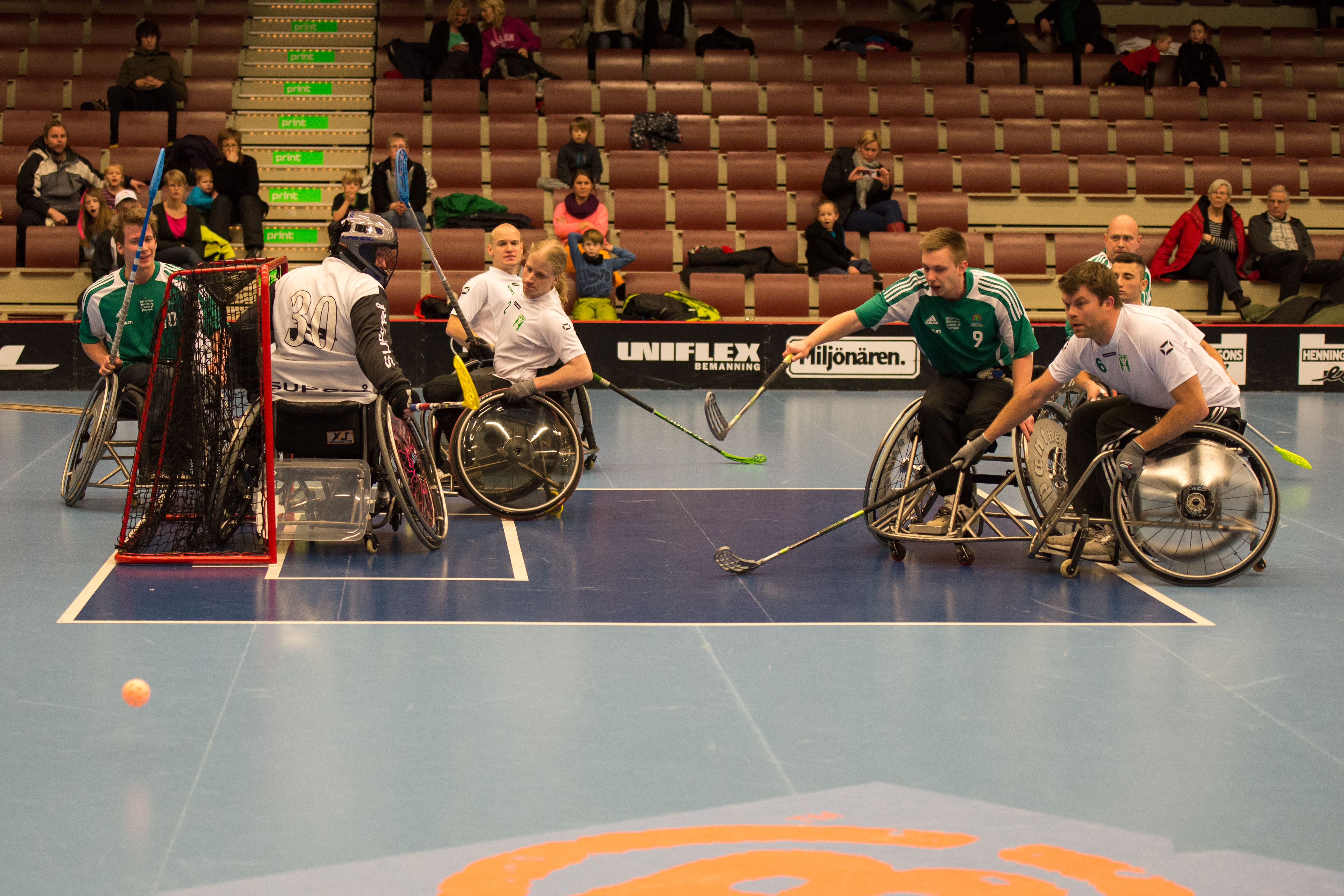 Swedish national championchips in wheelchair floorball: Final game between Eskilstuna HIF (in green) and Nacka HI (in white). Eskilstuna won.